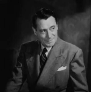 Eduardo Ciannelli in Dillinger (1945) - trailer (cropped screenshot)